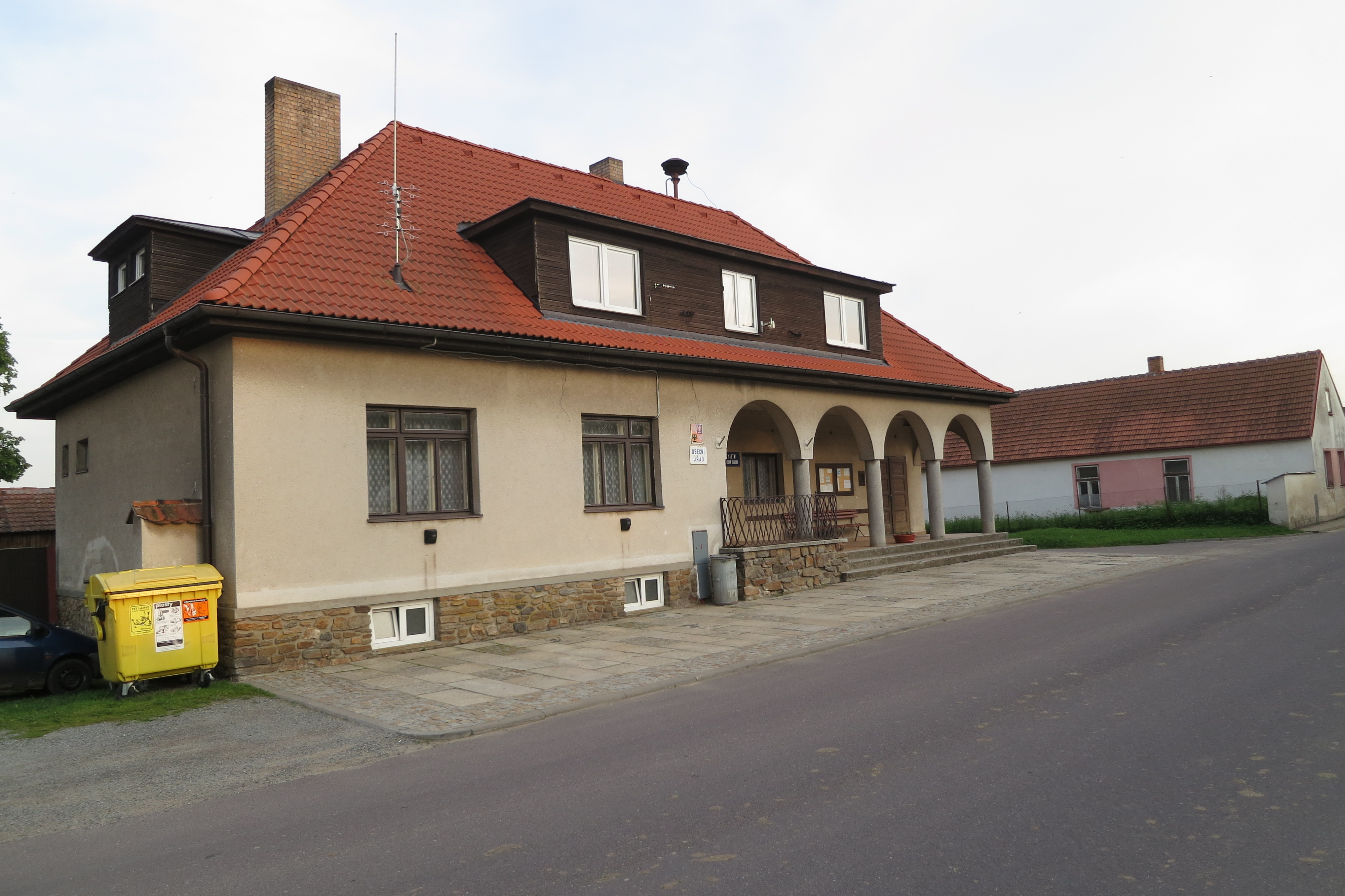 Municipal offices in Kdousov, Třebíč District.